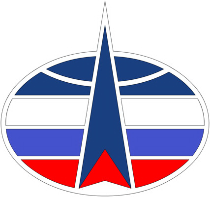 The Russian Federation Space Troops small emblem.